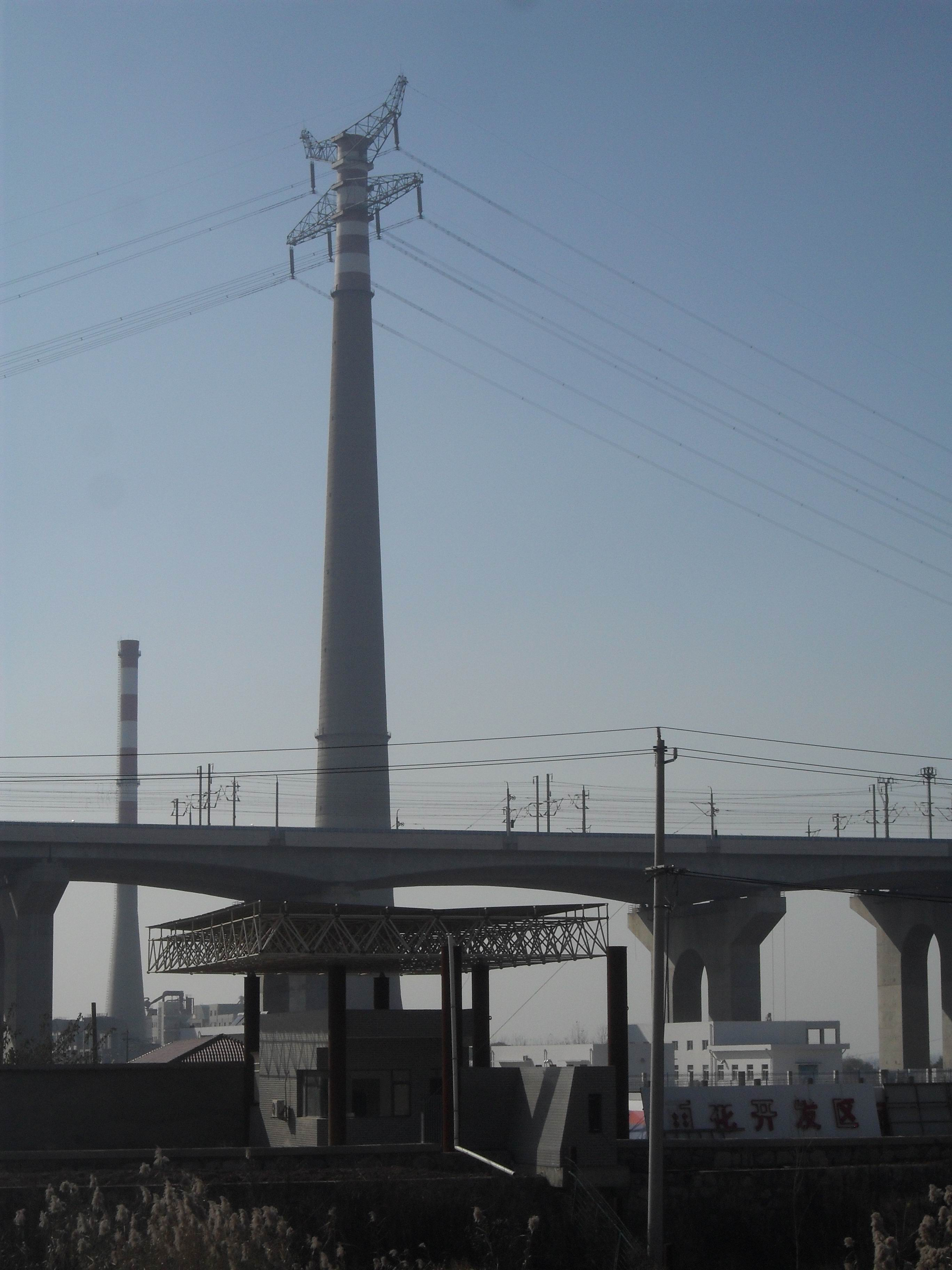 Dashengguan Railway Bridge approach spans and across the river line poles; Yangtze River 500 kV overhead power line crossing in Nanjing City, Jiangsu Province, China